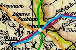 Via Aemilia in Hirpinis (green), Via Minucia (purple), Via Traiana (azure) and Via Herculea (orange) crossing at Aequum Tuticum (white) along Samnium-Apulia border (black).